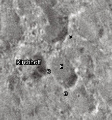 Kirchhoff lunar crater as seen from Earth with satellite craters labeled